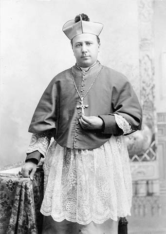 His Grace Archbishop Langevin